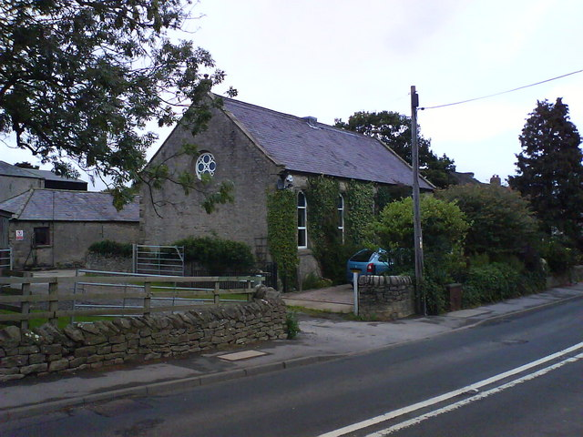 Former Wesleyan chapel, Skeeby, North Yorkshire; now a private house